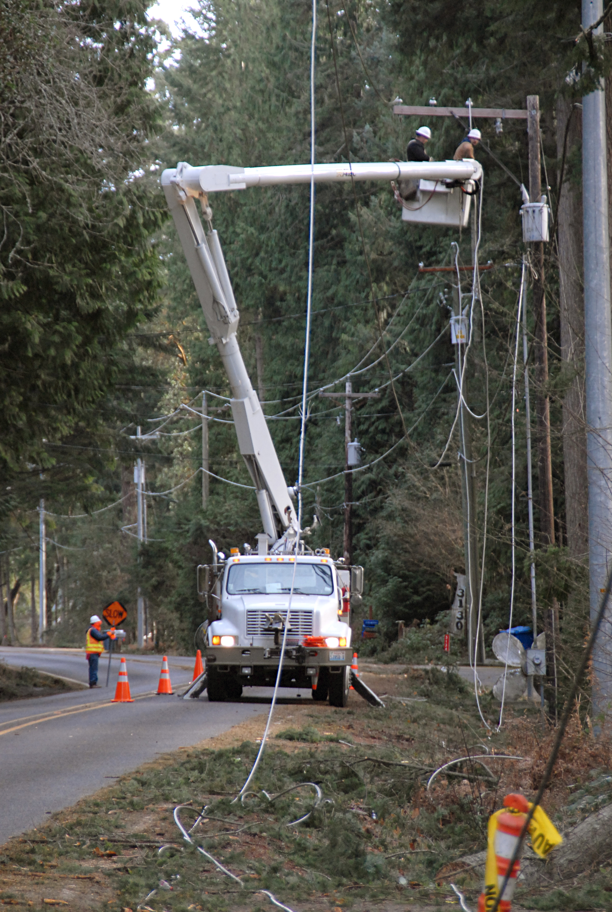 Gig Harbor, WA, 12-18-06 -- A Peninsula Light Power Crew repairs down power lines and broken power poles on East Bay Drive in Gig Harbor from the Nov 14th Wind Storm. Marvin Nauman/FEMA photo